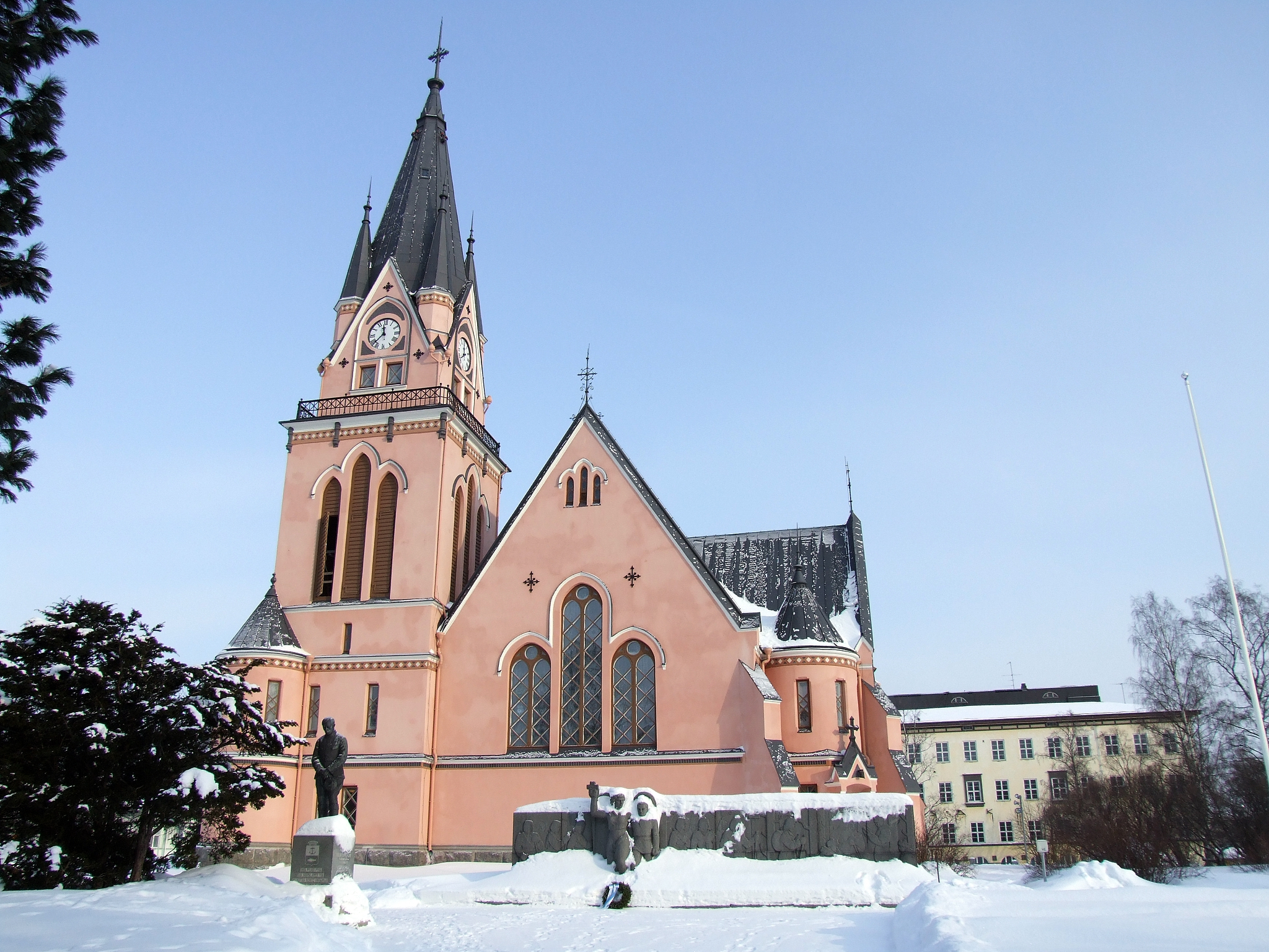 The church of Kemi, Finland